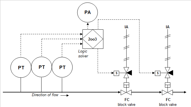 Schematic representation of a HIPPS system